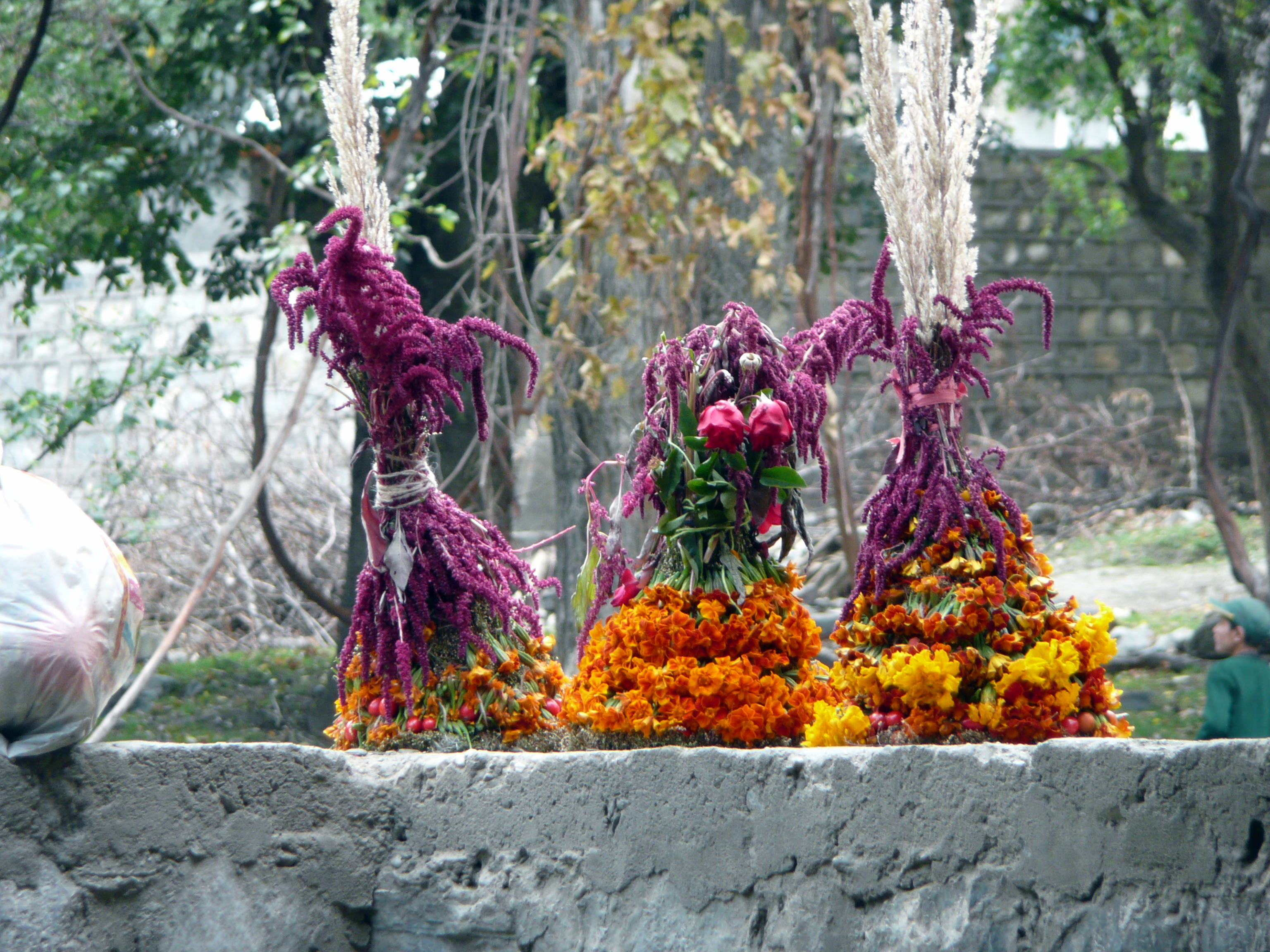 Hat decoration for the harvest festival